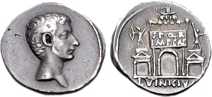 Augustus. 27 BC-AD 14. AR Denarius (3.77 g, 9h). Rome mint. L. Vinicius, moneyer. Struck 16 BC. Bare head right Triumphal arch, surmounted by facing quadriga in which Augustus stands, holding laurel branch and scepter; smaller arch on either side, surmounted by archer on left and by slinger(?) on right; S • P • Q • R/IMP CAE in two lines on entablature of arch. RIC I 359; RSC 544.